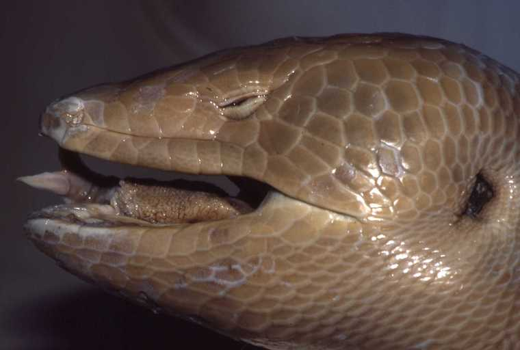 extinct Celestus occiduus specimen in Natural History Museum, London. (notes: specimen probably collected in the 19th Century)